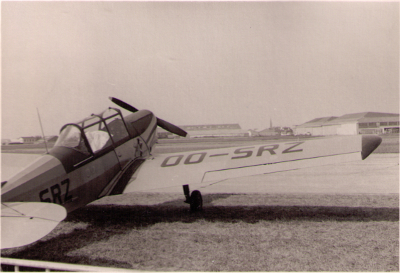 Stampe & Renard SR-7in Gosselies op het Salon International de l'Aviation Générale in 1968.